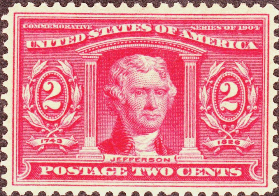 Thomas Jefferson portrait. Jefferson was the first American President to be depicted on a commemorative postage issue, even before Washington was when the US Post Office 21 years later finally issued its first commemorative issue featuring Washington in its Lexington-Concord issue of 1925.